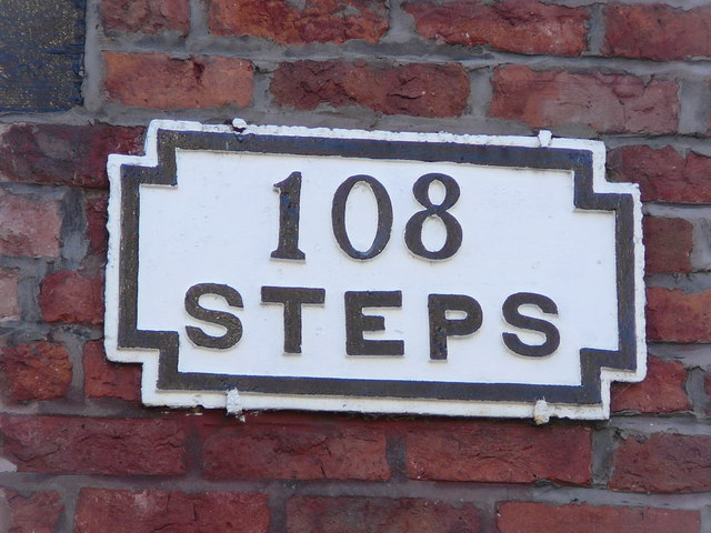 Street name, Macclesfield